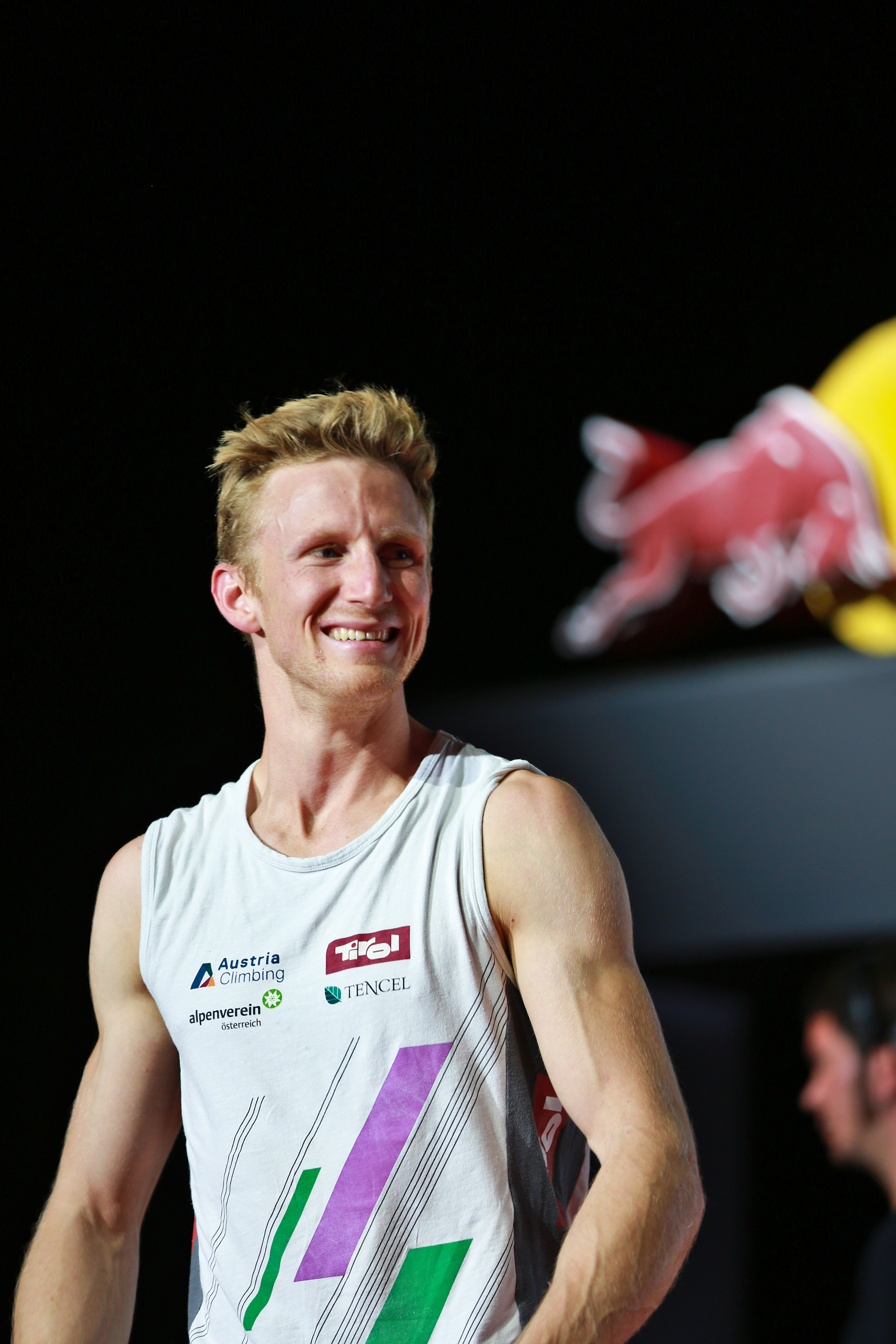 IFSC Climbing World Championships Innsbruck 2018 Final MAN lead 166 SCHUBERT Jakob AUT